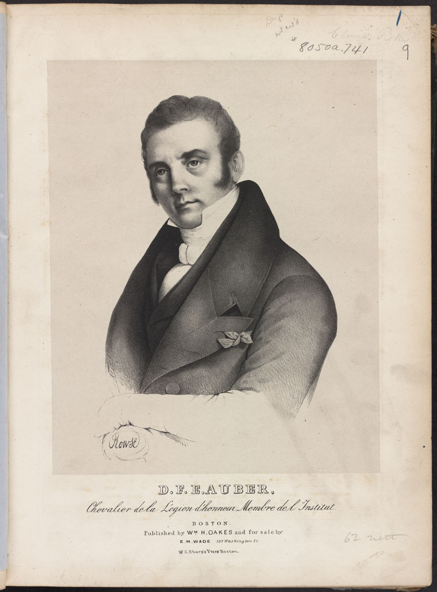 "Lestocq" by D.F.E. Auber (Boston: William H. Oakes, 19th c.) Accession No.: 07_07_000117 Call Number: no. 1 of 8050a.741 Lithographer: Sharp, William C. Title of Lithograph: D.F.E. Auber Composer: Auber, D.F.E. Title of Composition: Lestocq Place of Publication: Boston Publisher: Wm. H. Oakes BPL Department: Music Flickr data on 2011-08-05: Camera: Sinar AG Sinarback 54 FW, Sinar m Tags: dc:identifier=07_07_000117 License: CC BY 2.0 User: Boston Public Library BPL